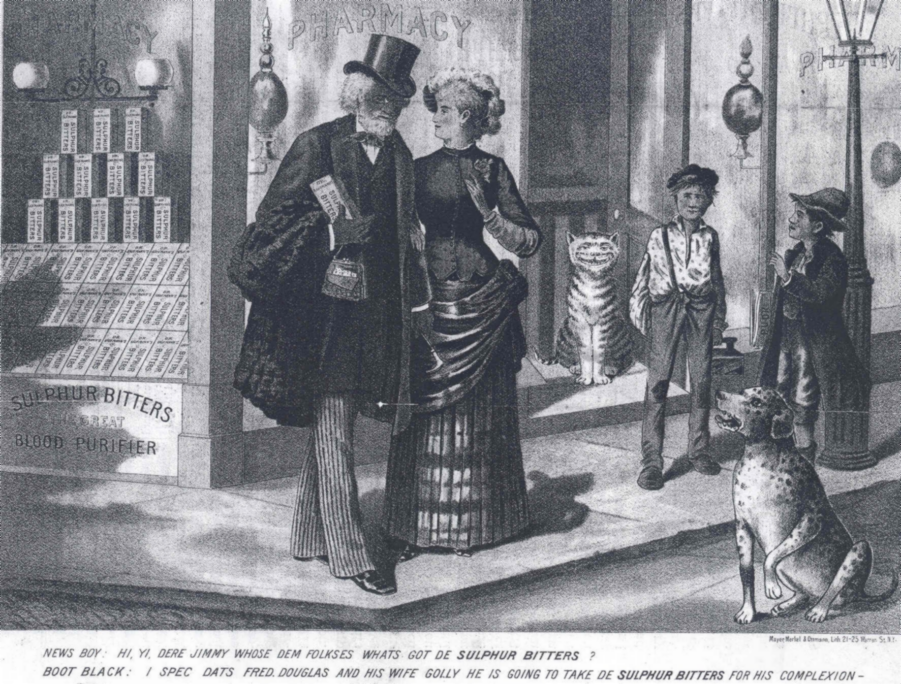 Racist cartoon attacking Frederick Douglass for his marriage to Helen Pitts. This cartoon is an example of the furor the marriage evoked.